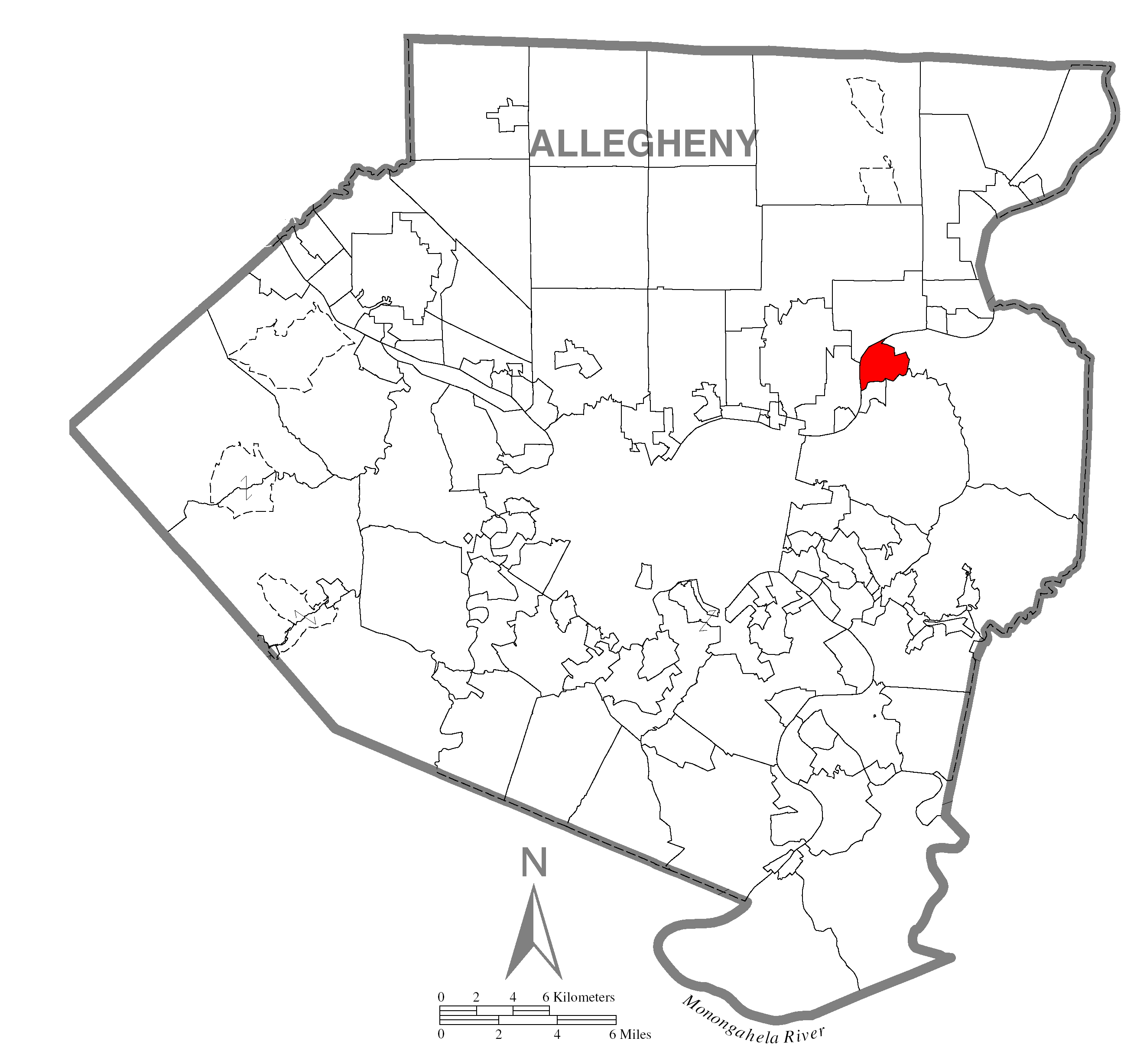 A map of Allegheny County showing Oakmont, Pennsylvania (alternate) highlighted on the map.